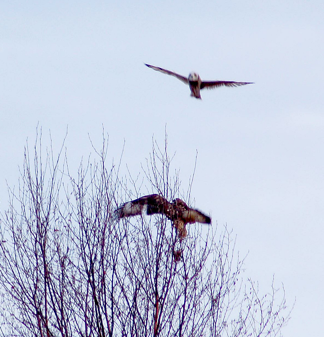 Rough-legged Hawk mobbed by Short-eared Owl. Minnesota, USA.